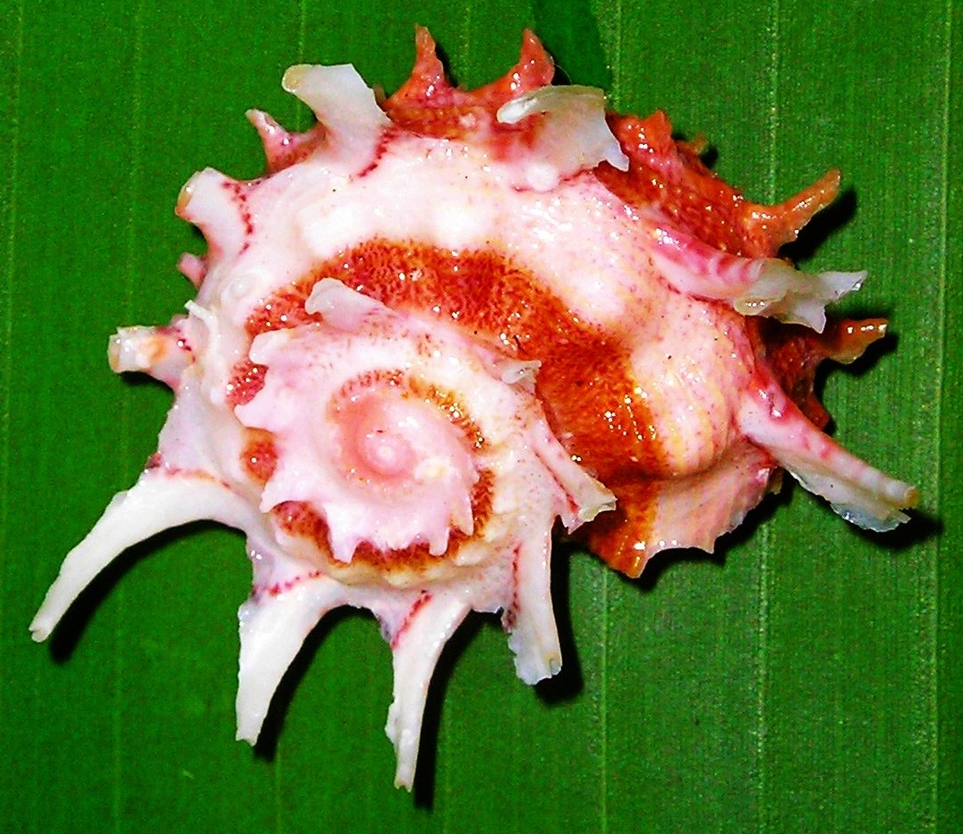 Photo of the shell of Angaria sphaerula.